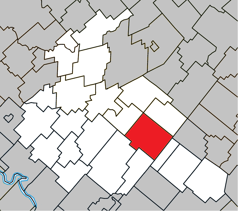 Location of Chesterville, Quebec within Arthabaska Regional County Municipality.